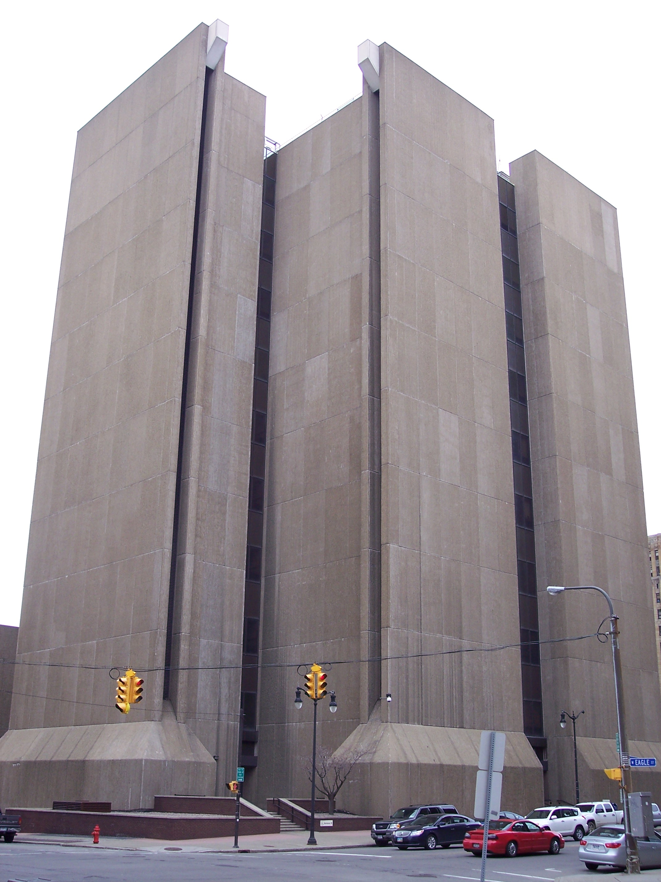 Buffalo City Court Building, 50 Delaware Avenue Buffalo New York